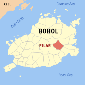 Map of Bohol showing the location of Pilar